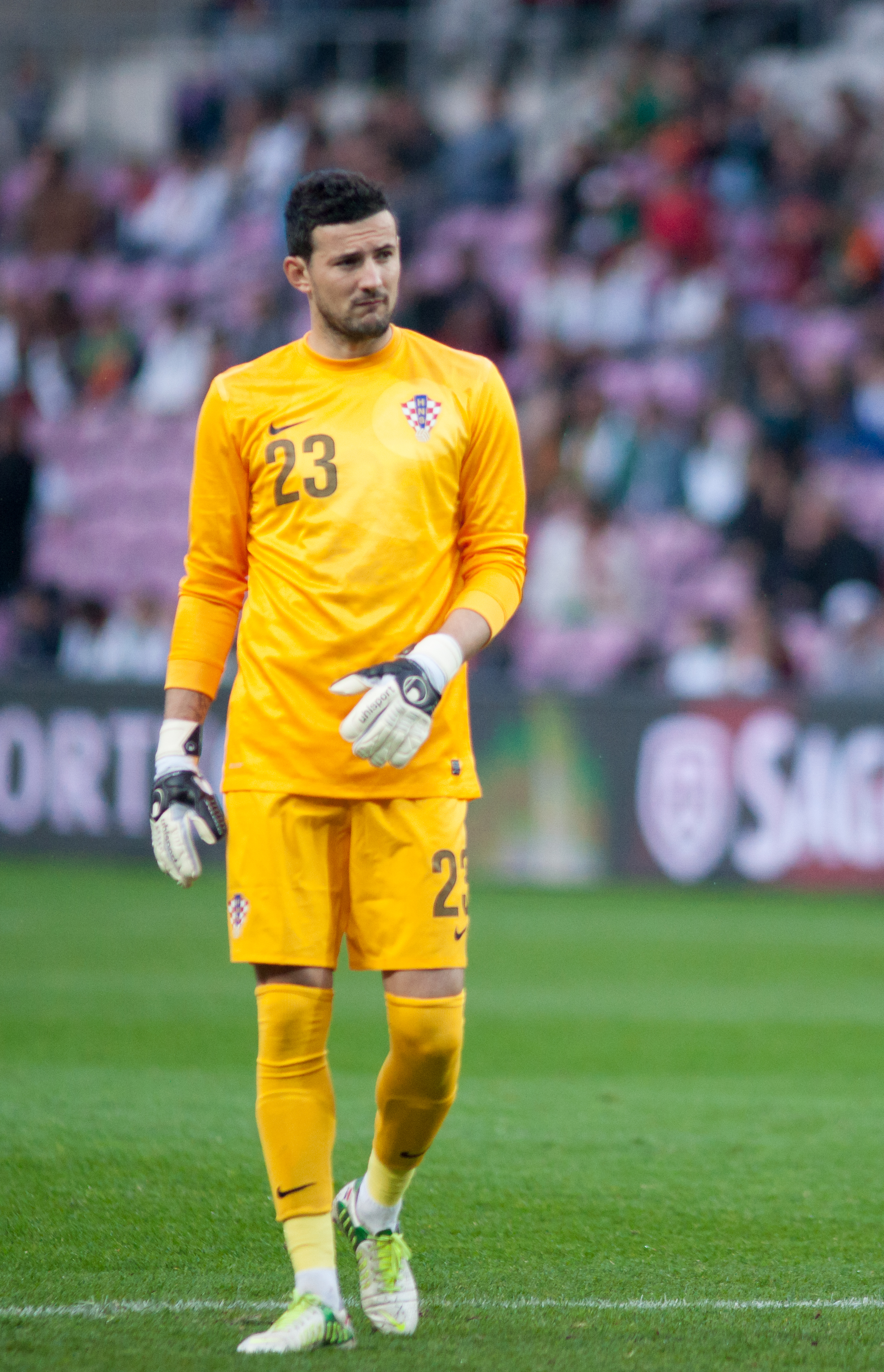 Croatia vs. Portugal, 10th June 2013